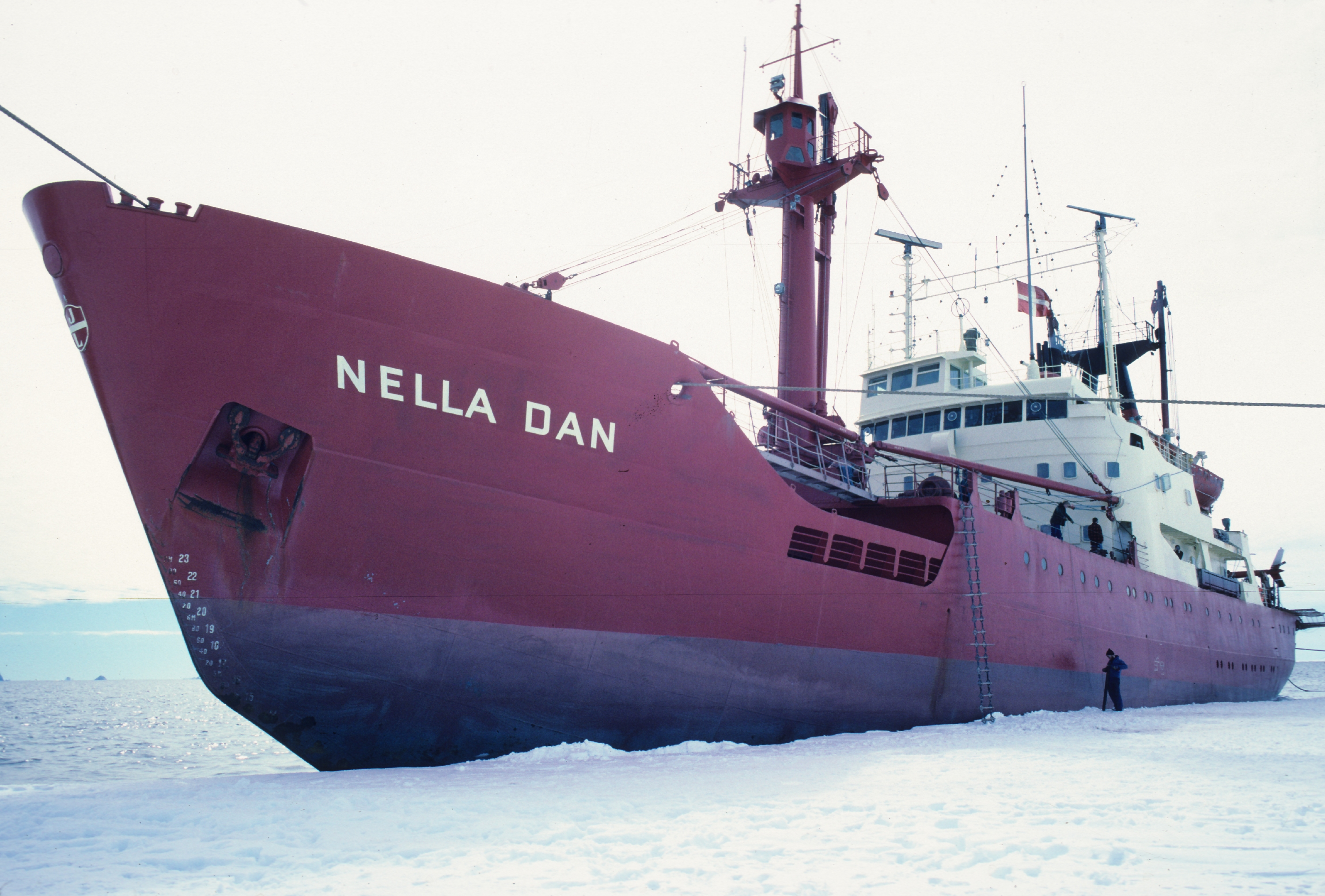 MV Nella Dan. Mawson Ice edge, Antarctica. 1981 November.